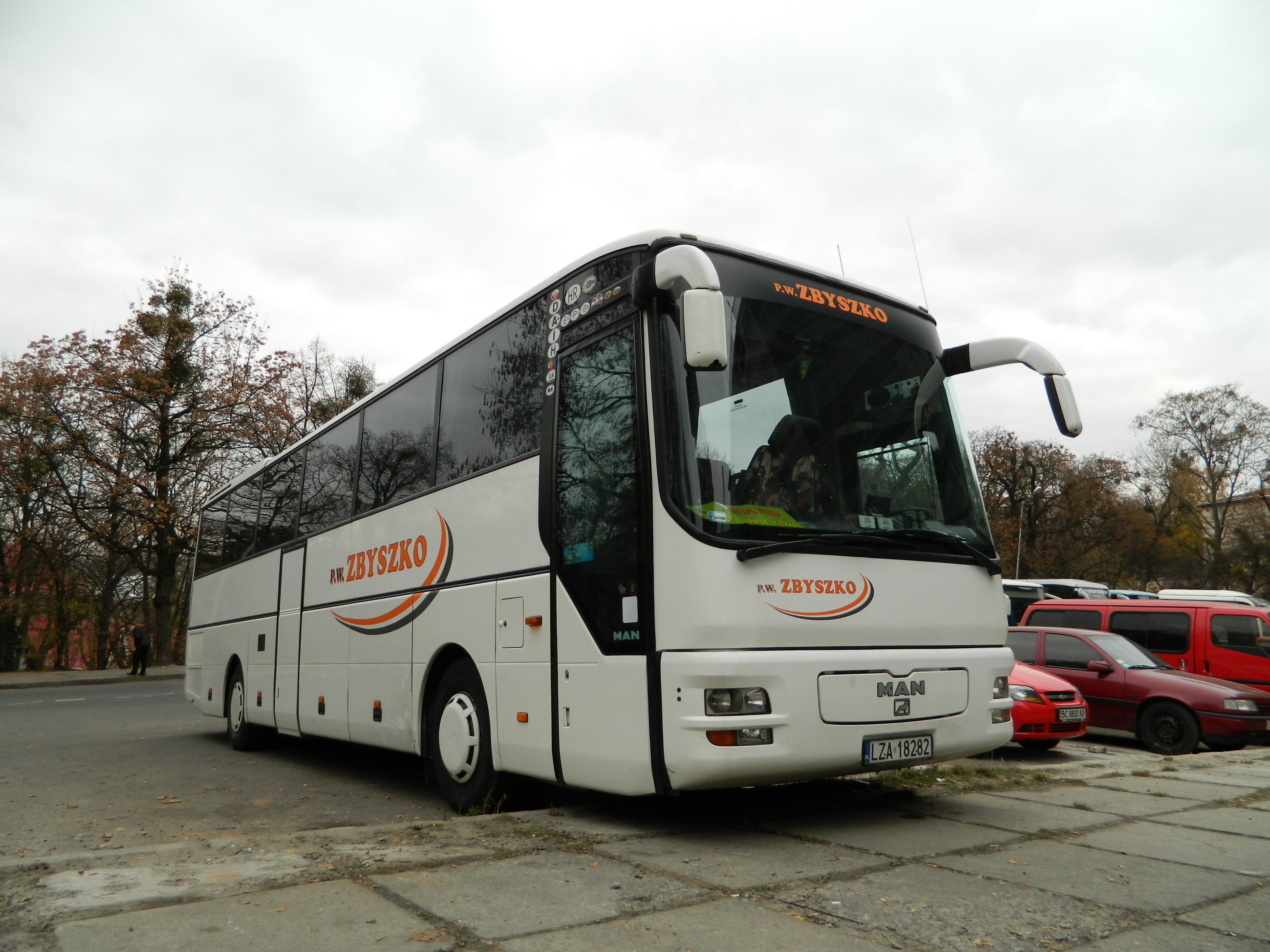 MAN ÜL 3x3 coach (reg. LZA 18282) from Poland in Ukraine. P.W. Zbyszko from Szczebrzeszyn operator.